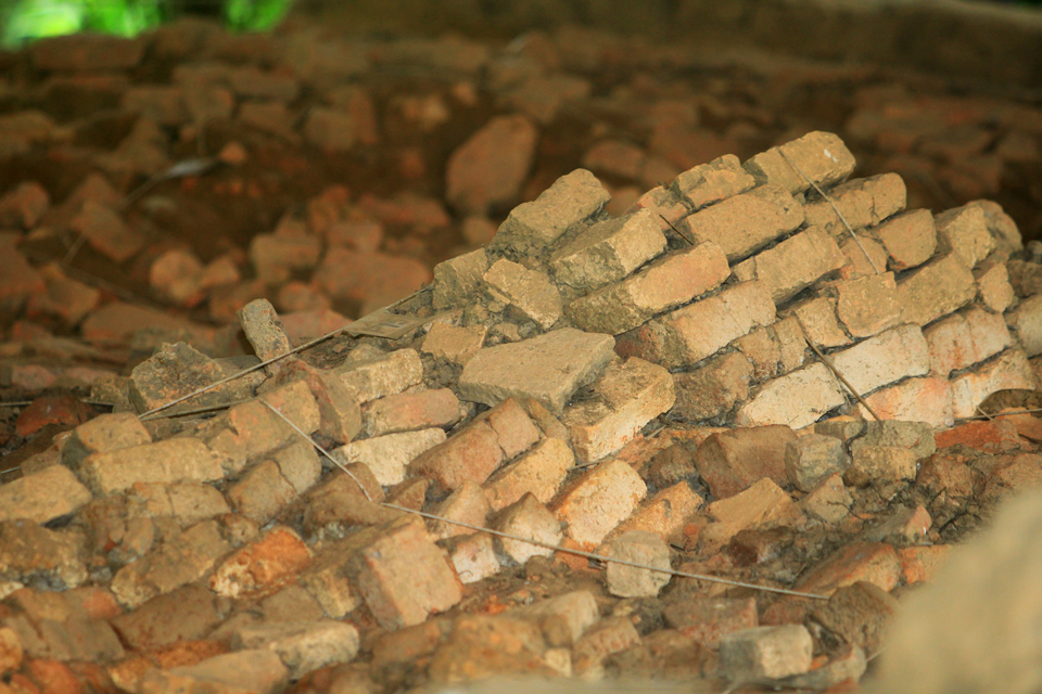 Dinding binaan bangunan bata pada abad 500 Sebelum Masihi